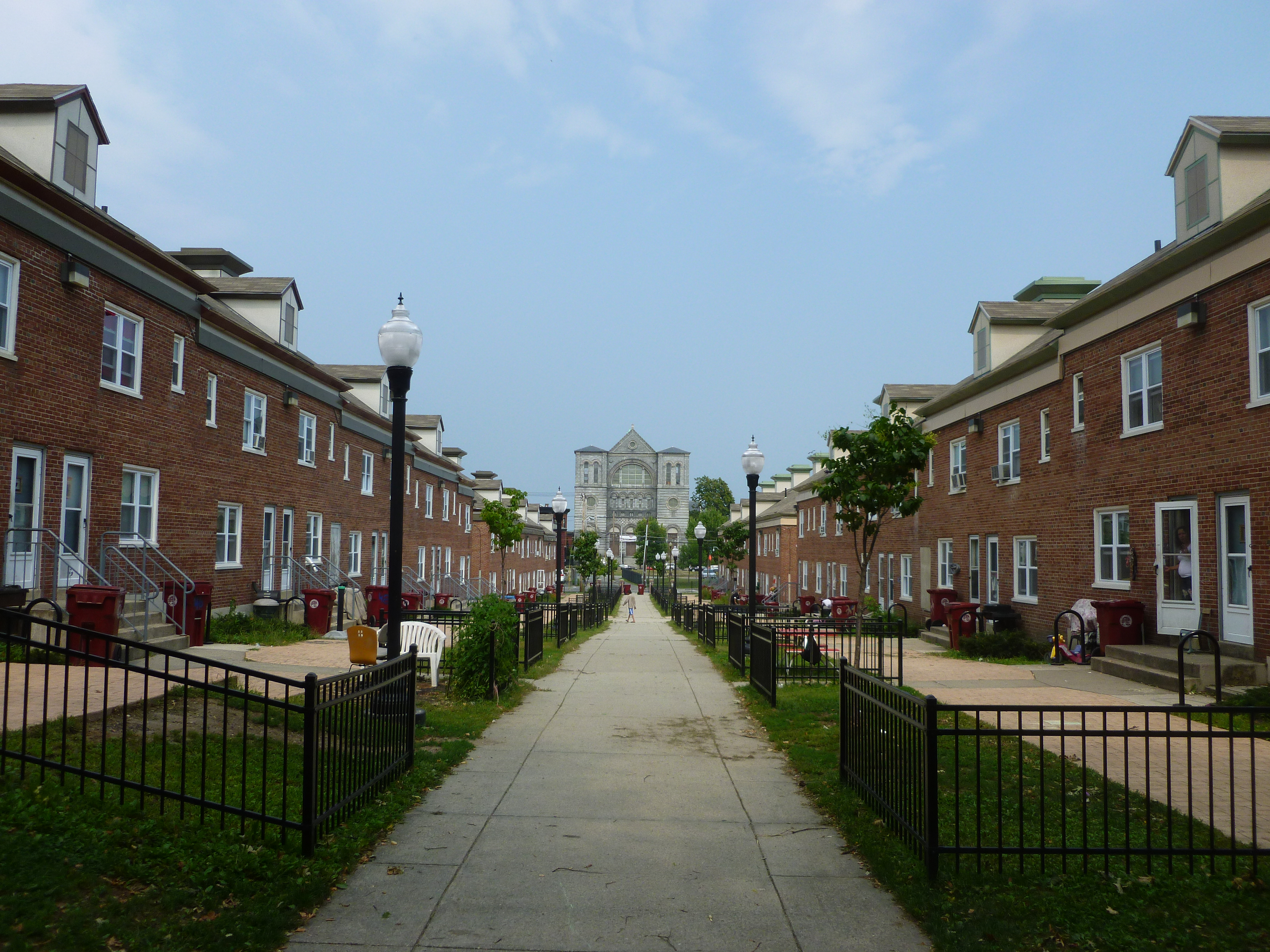 North Common Village apartments, with Saint Jean-Baptiste Church in the background. Taken from Clark Street in Lowell, Massachusetts.